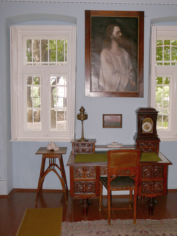 Géza Gárdonyi's little working-table, with the self-made copy of one of Mihály Munkácsy's picture